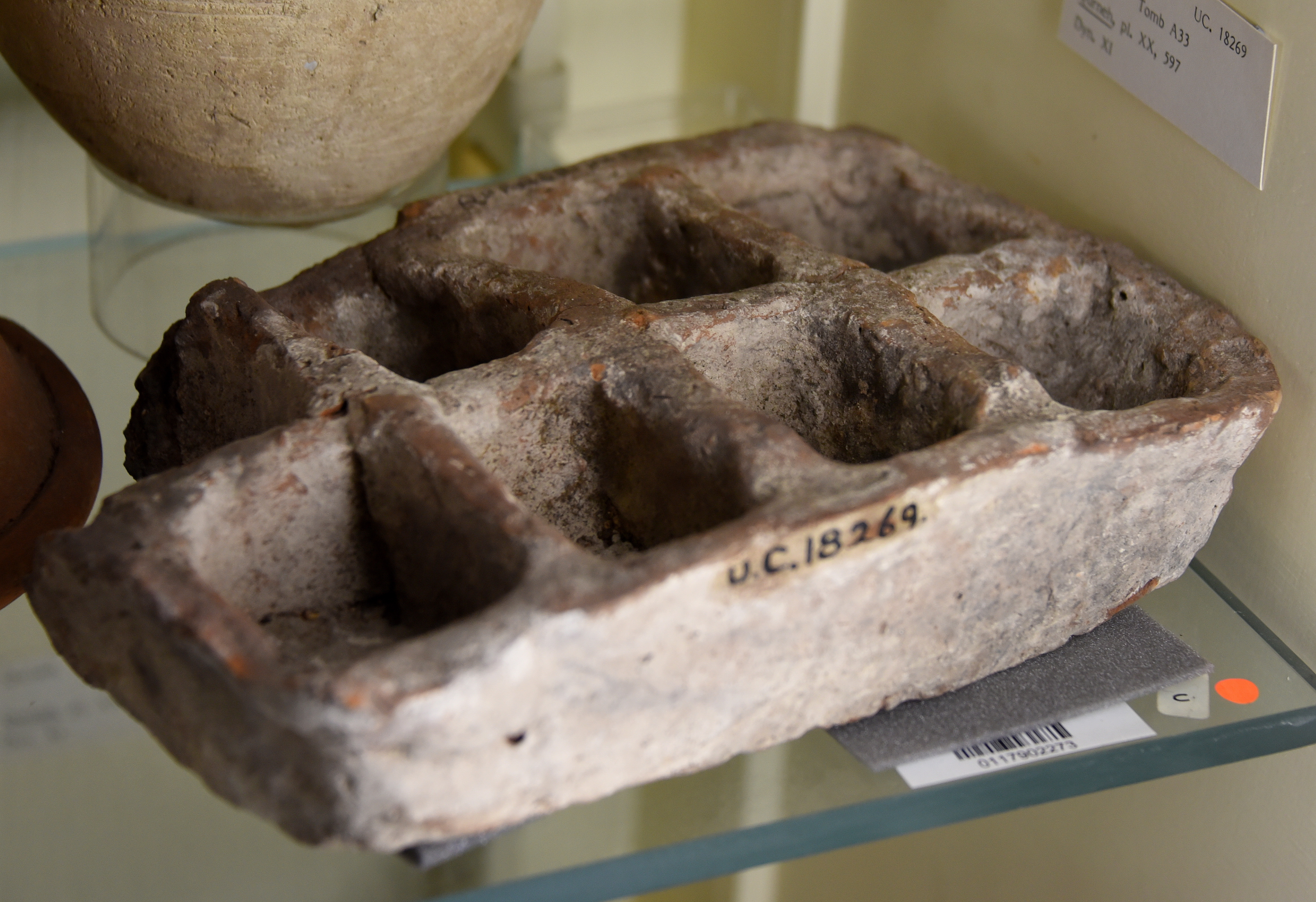 Pottery tray with 8 compartments. Redware, rectangular. 11th Dynasty. From Kurna (Qurna), Egypt. The Petrie Museum of Egyptian Archaeology, London. With thanks to the Petrie Museum of Egyptian Archaeology, UCL.